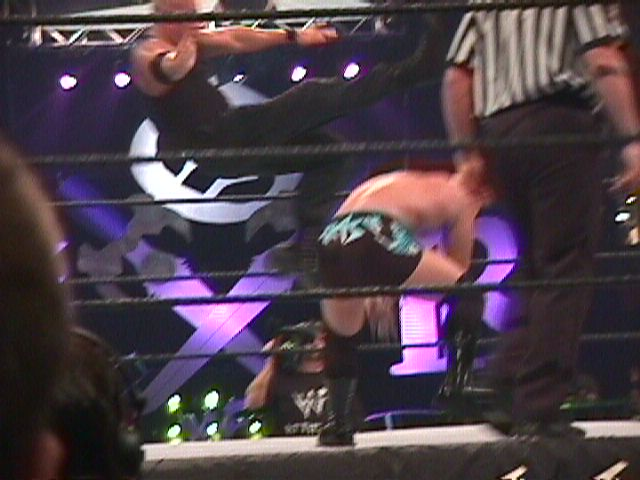 unknown wrestlers at the WWF King of the Ring at the Fleet Center in Boston, MA in 2000 - WWE. Can you name them?